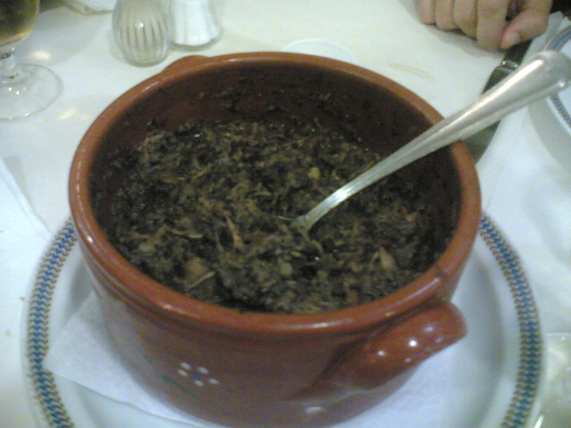 Papas de sarrabulho, a portuguese sort of porridge made with pig's blood